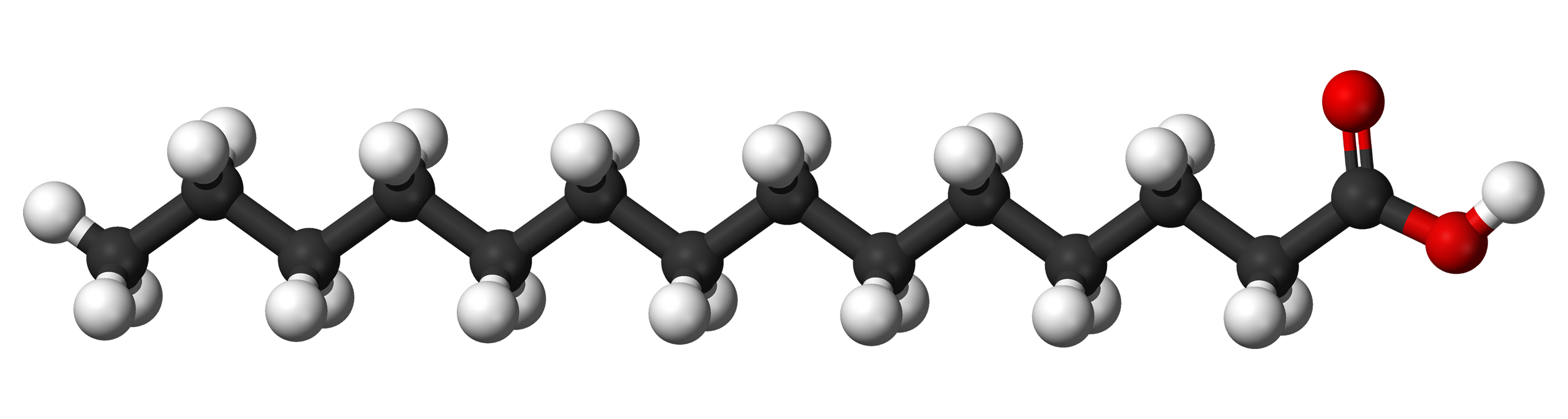 Ball-and-stick model of the myristic acid molecule (also known as tetradecanoic acid), a saturated fatty acid with 14 carbon atoms.